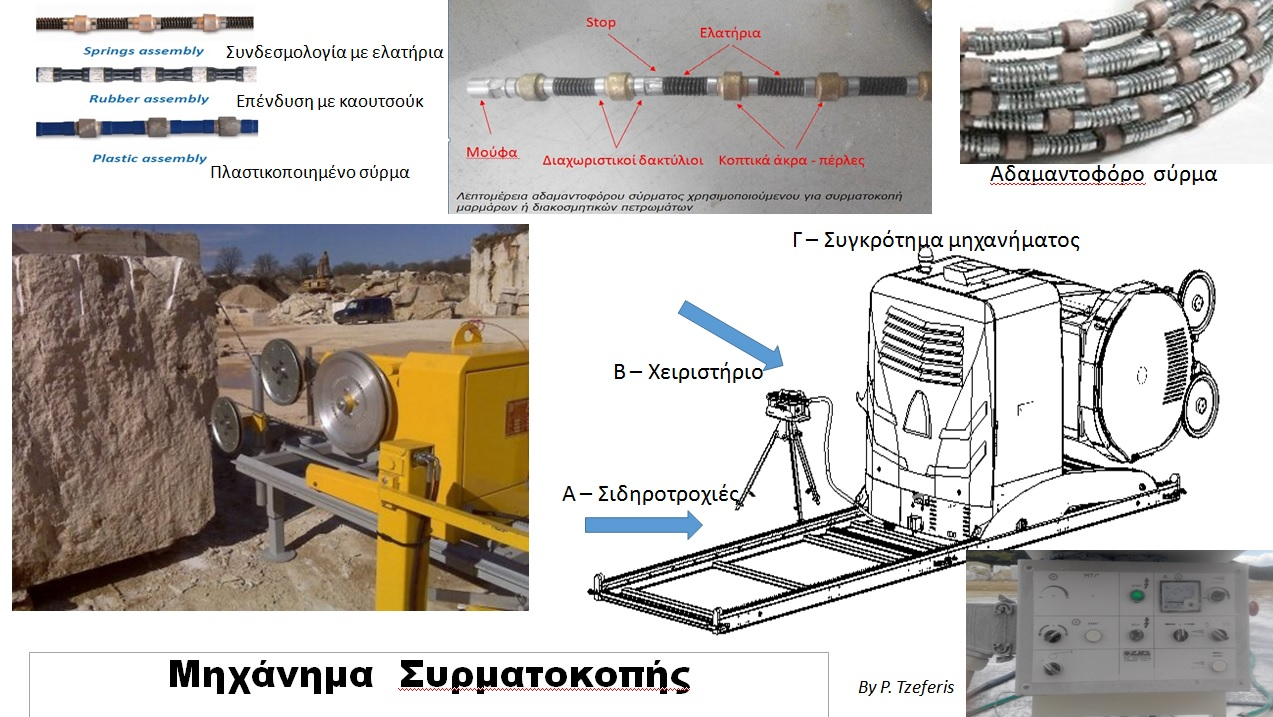 Diamond wire cutting machine used in marble quarry